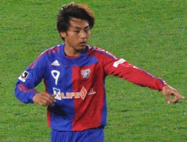 Shingo Akamine - cropped from, 0-0